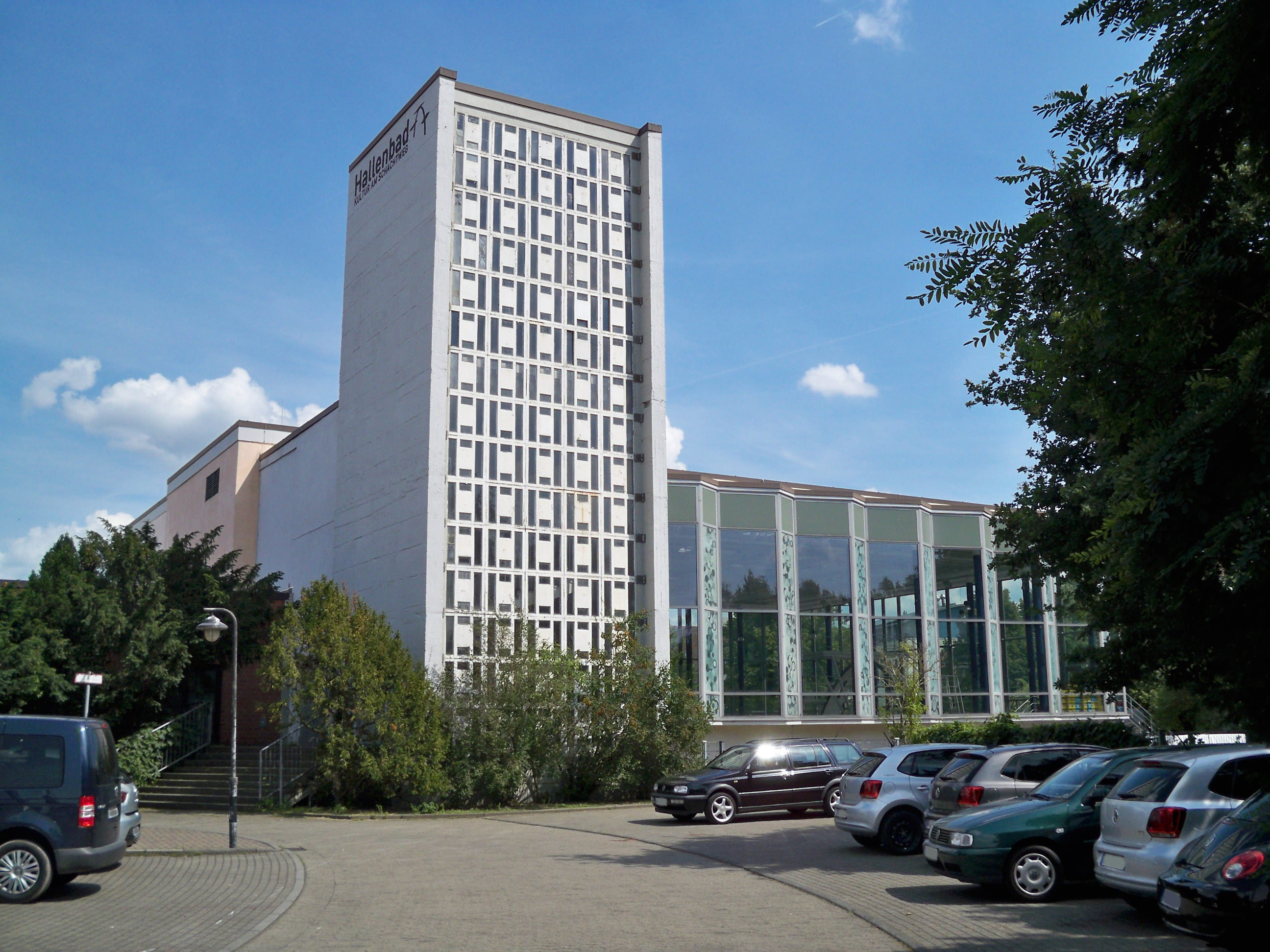 Wolfsburg, Lower Saxony, Hallenbad (cultural centre), view from west